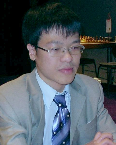 Quang Liem Le, Dortmunder Schachtage 2010, Photographer Gerhard Hund.